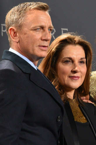 Actor Daniel Craig, producer Barbara Broccoli, actress Naomie Harris and actor Christoph Waltz attend the German premiere of the new James Bond movie 'Spectre' at CineStar on October 28, 2015 in Berlin, Germany. More Photos At